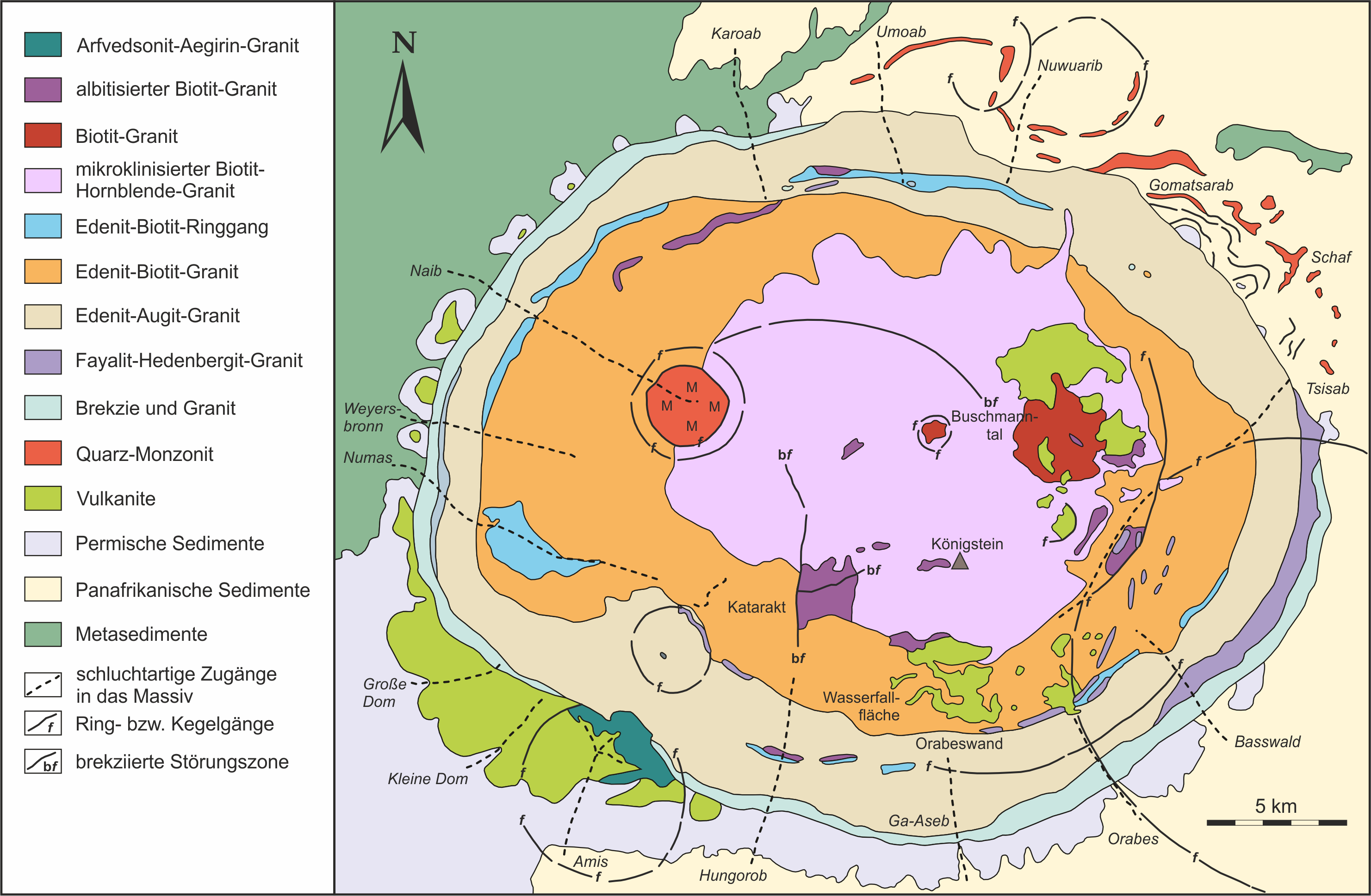 Geological map of the Brandberg Alkaline Complex. Newly created on the basic of B. J. Michael Diehl: Geology, mineralogy, geochemistry and hydrothermal alteration of the Brandberg alkaline complex, Namibia. In: Geological Survey of Namibia Memoir Vol. 10, 1990, pp 1–55.